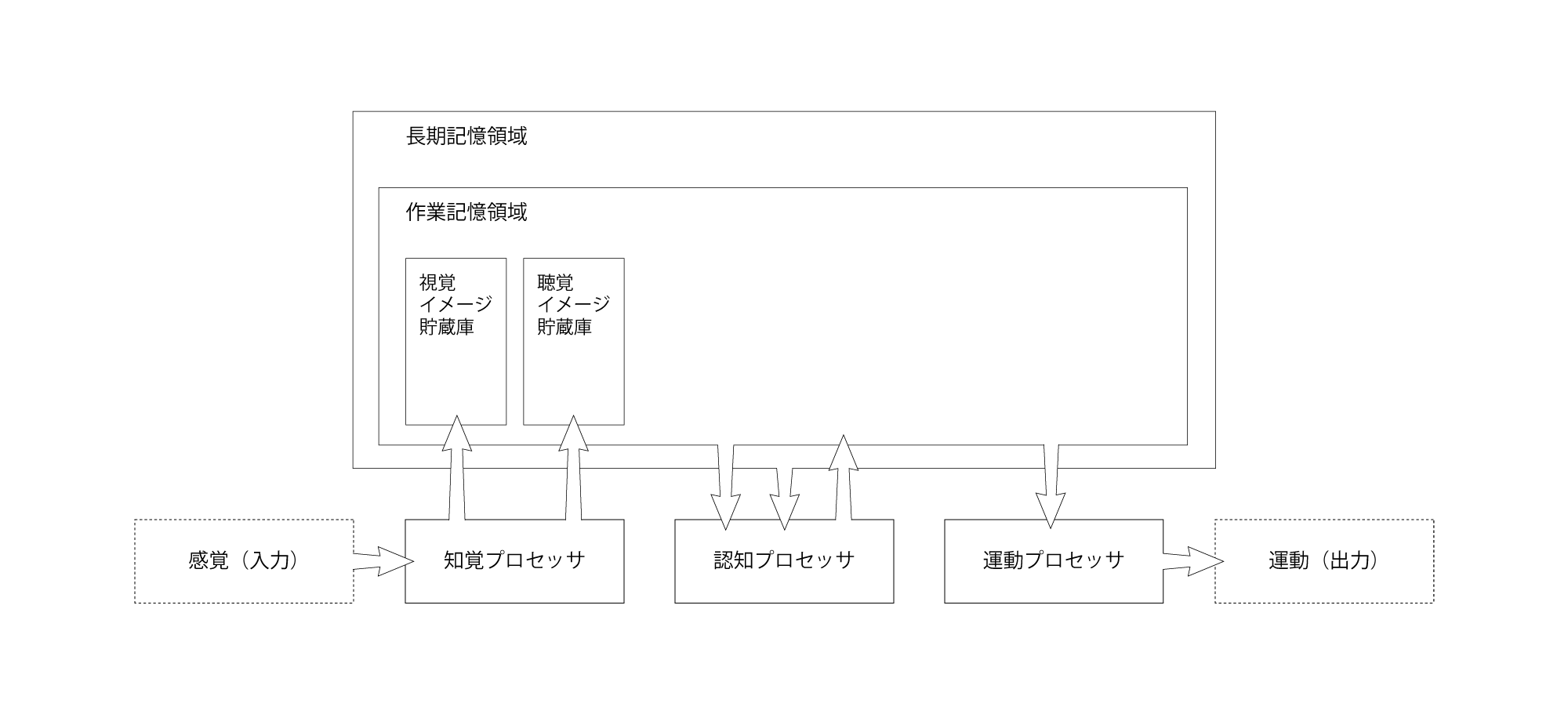 モデルヒューマンプロセッサの図解。